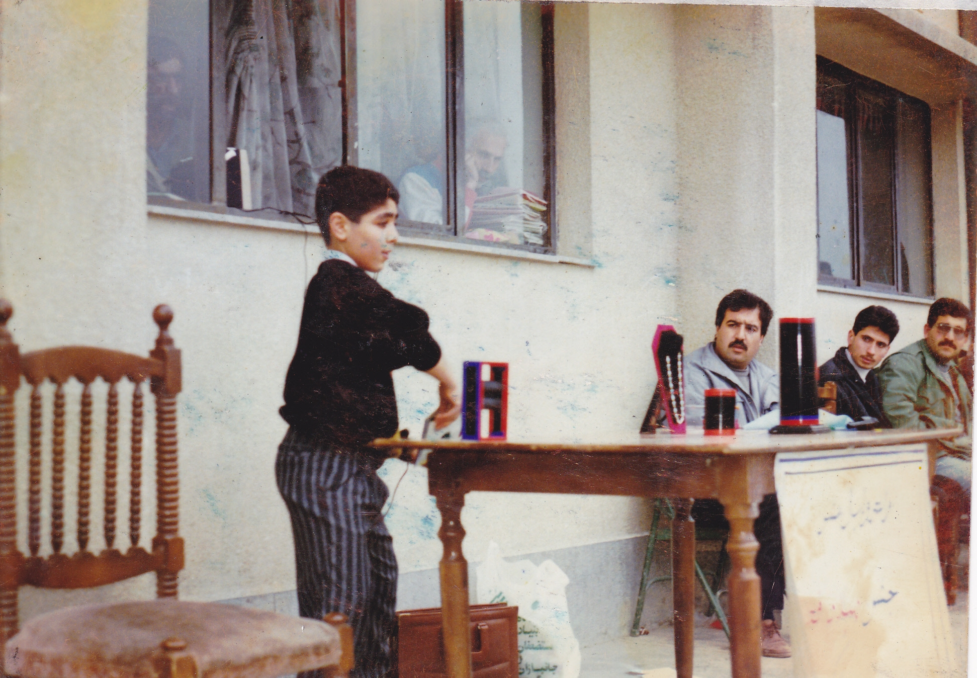 This is moudini when perform magic in young age